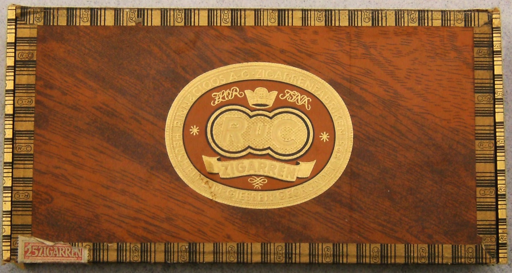 Cigar-box, Rinn & Cloos cigars manufactury in Heuchelheim, ca. 1965.